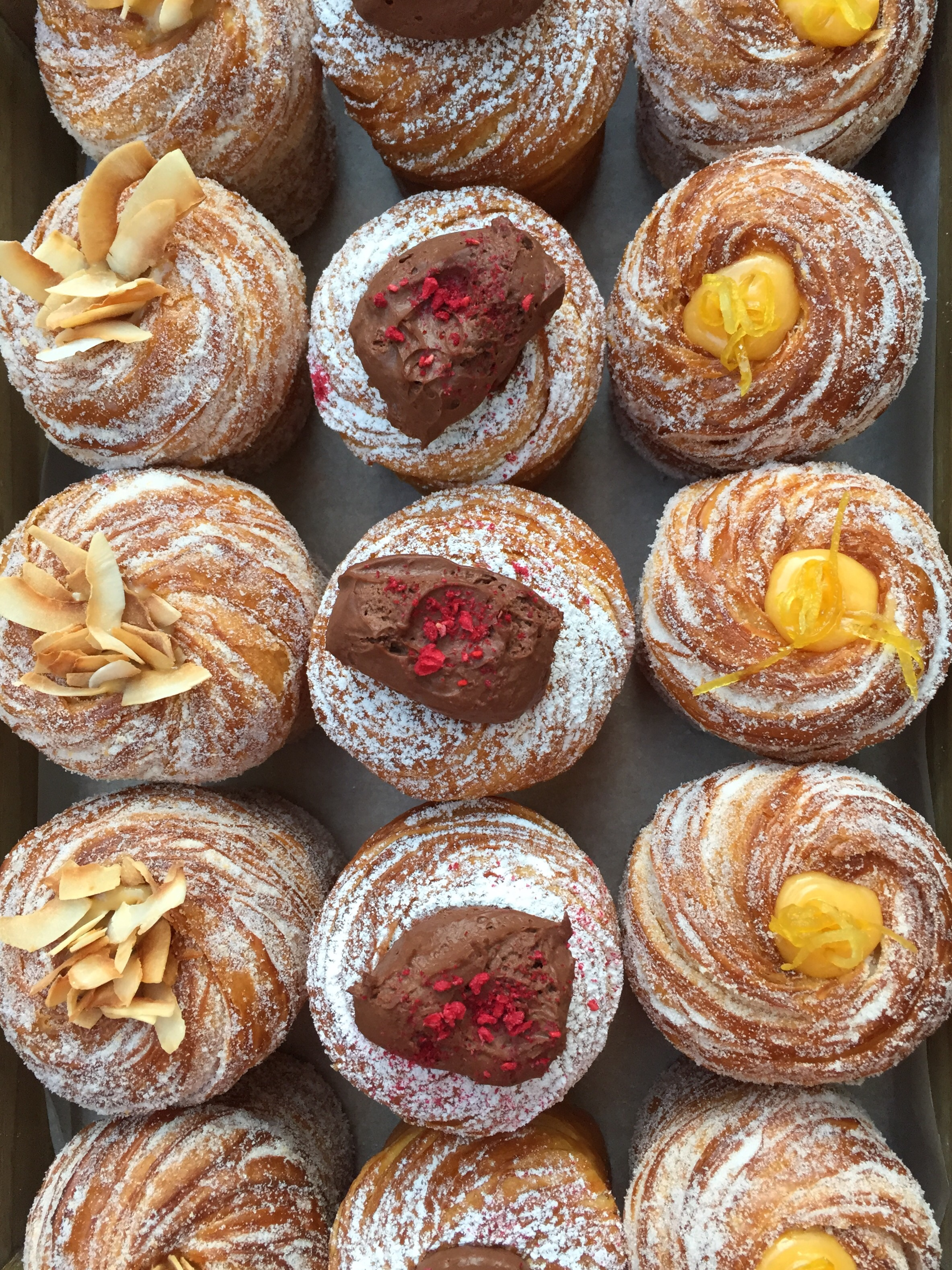 A selection of cruffins from Lune Croissanterie. L to R: Kaya, Choc Bomber, Lemon Curd